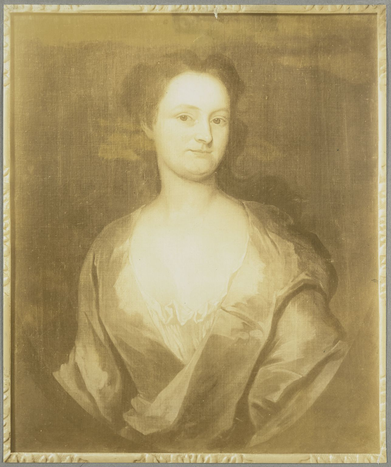 Title:Mrs. William Greene (Catherine Greene). Author/Artist:Smibert, John, 1688-1751 Creation Date:1734 Description:Graphic reproduction(s) with documentation of a painting. 30 x 25 in. oil on canvas.